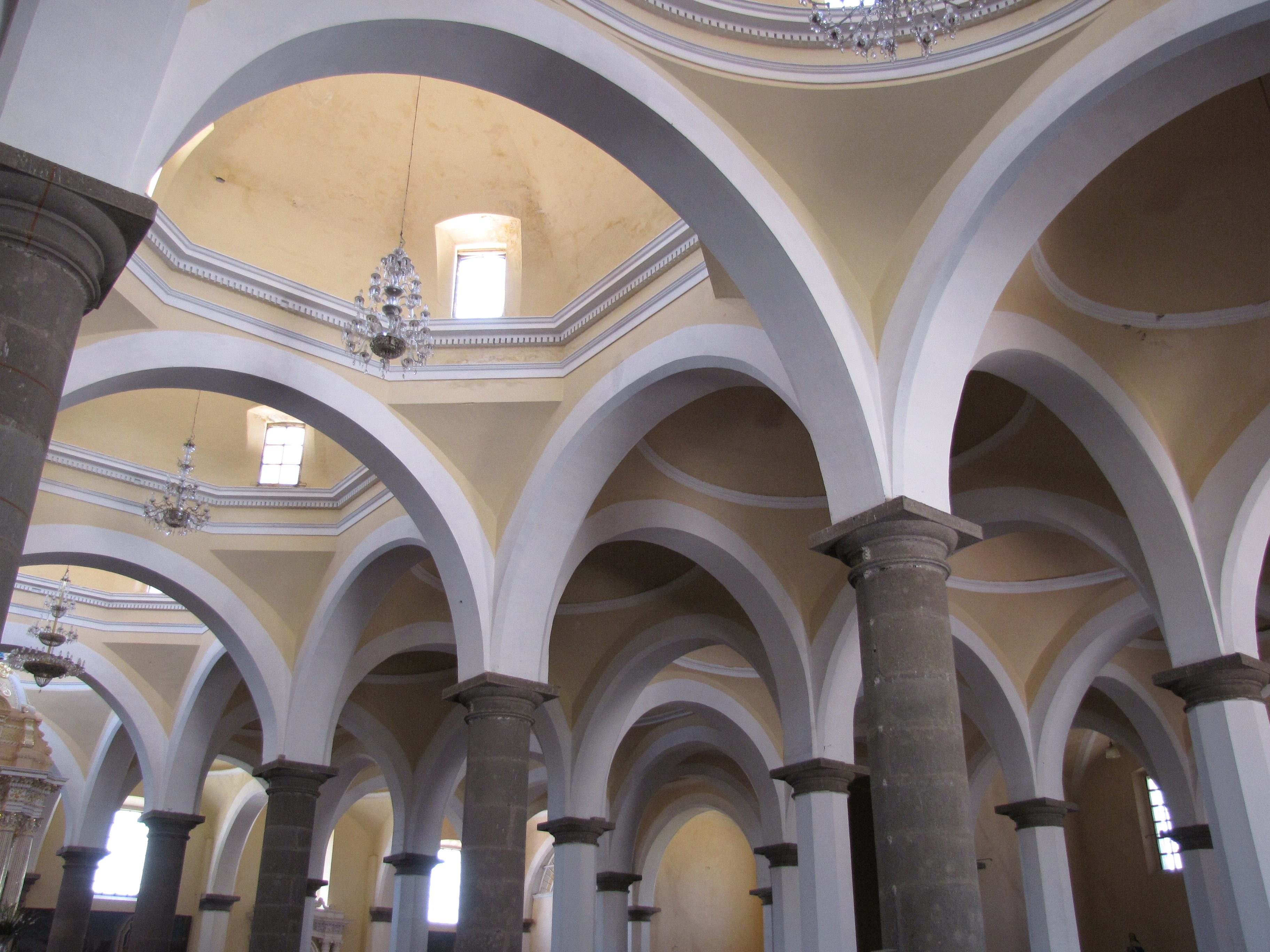 Capilla Real—an inside view.